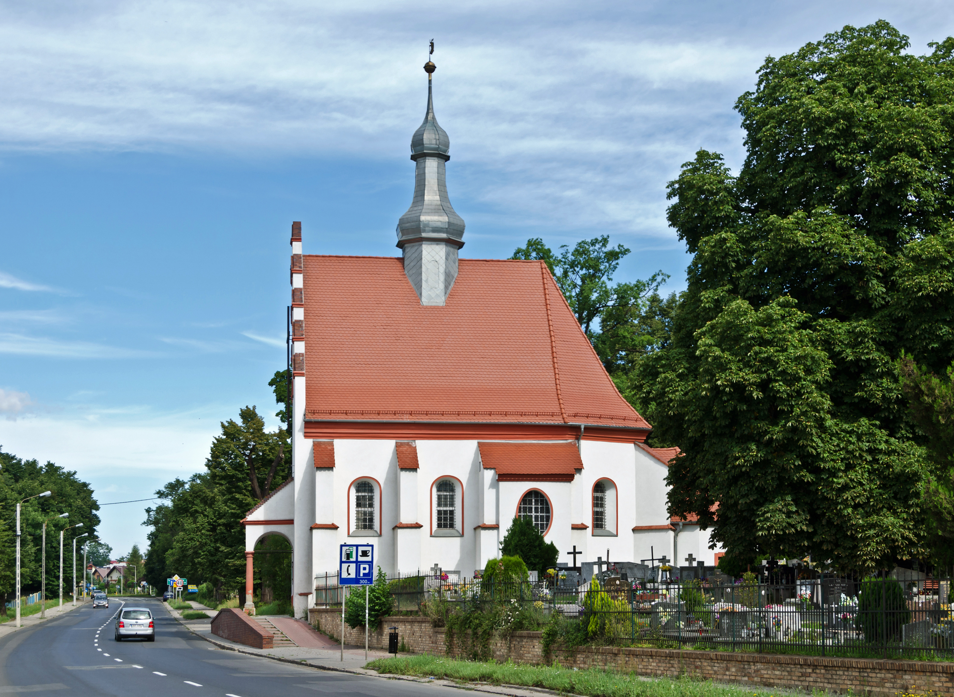 Church of the Holy Cross in Nysa